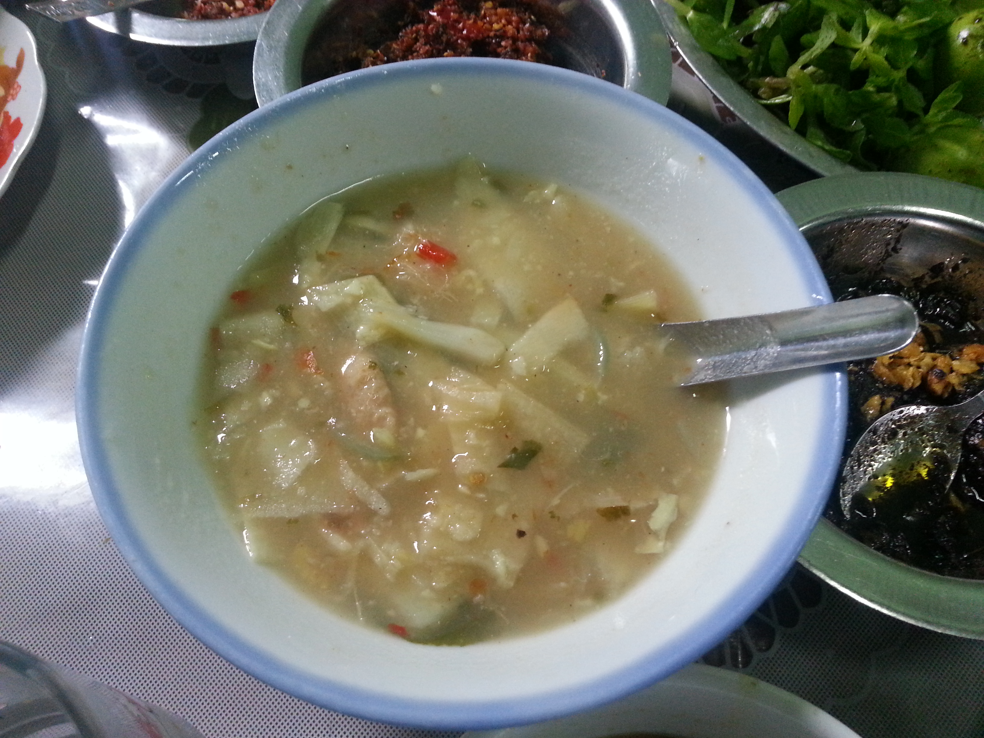 Myanmar Ethnic Kayin Traditional Tarlapaw Dish